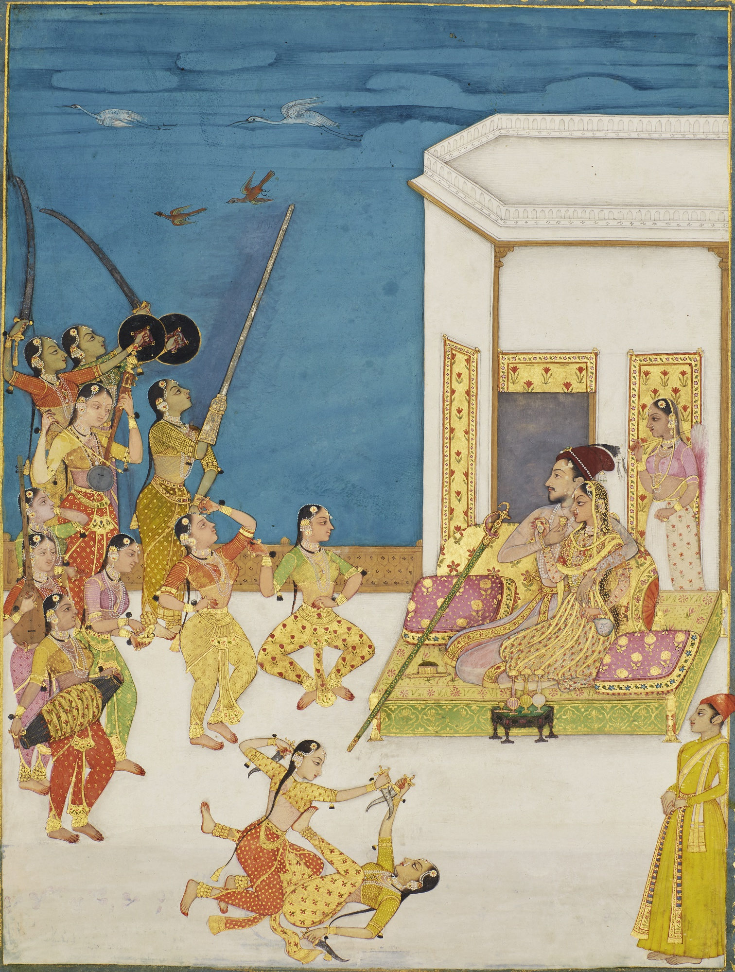 Muhammad 'Adil Shah (r.1627-56) entertained on a terrace, second half 17th century, Sotheby's